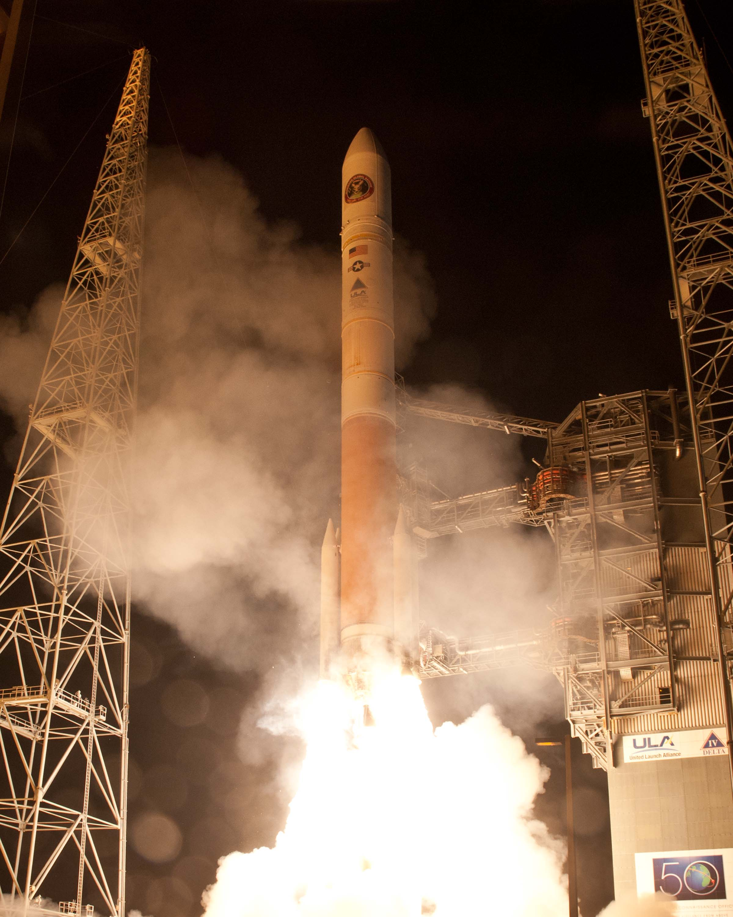 Air Force officials launch a United Launch Alliance Delta IV-Medium rocket carrying the fourth Wideband Global SATCOM satellite Jan. 19, 2012 from Cape Canaveral Air Force Station, Fla. Wideband Global SATCOM provides anytime, anywhere communication for the warfighter through broadcast, multicast, and point to point connections.